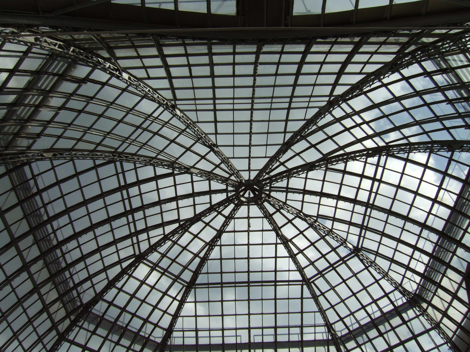 The Structure of the Roof of Upper Trading Rows (Moscow GUM) by Vladimir Shukhov - 1893